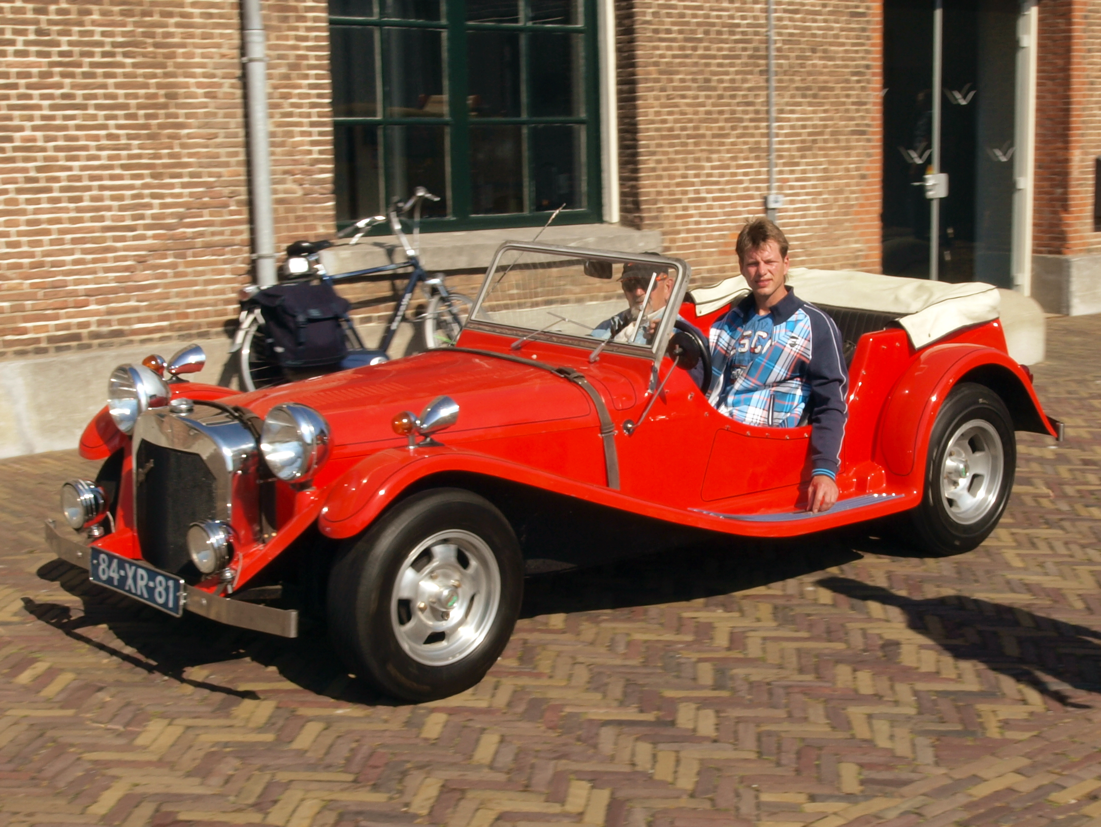 Photographed at Den Helder, The Netherlands. OLYMPUS DIGITAL CAMERA